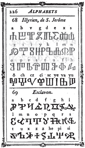 Неизвестный славянский алфавит.